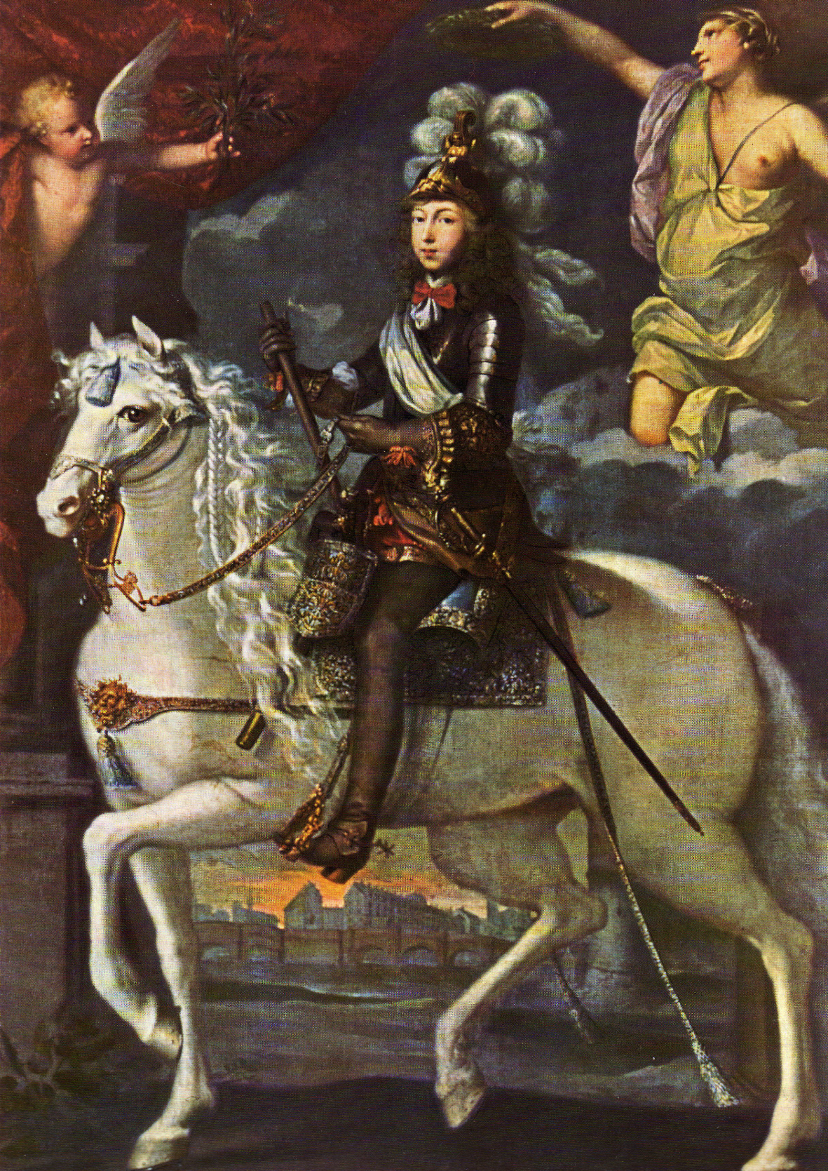 Portrait of Louis XIV of France - (1638-1715)